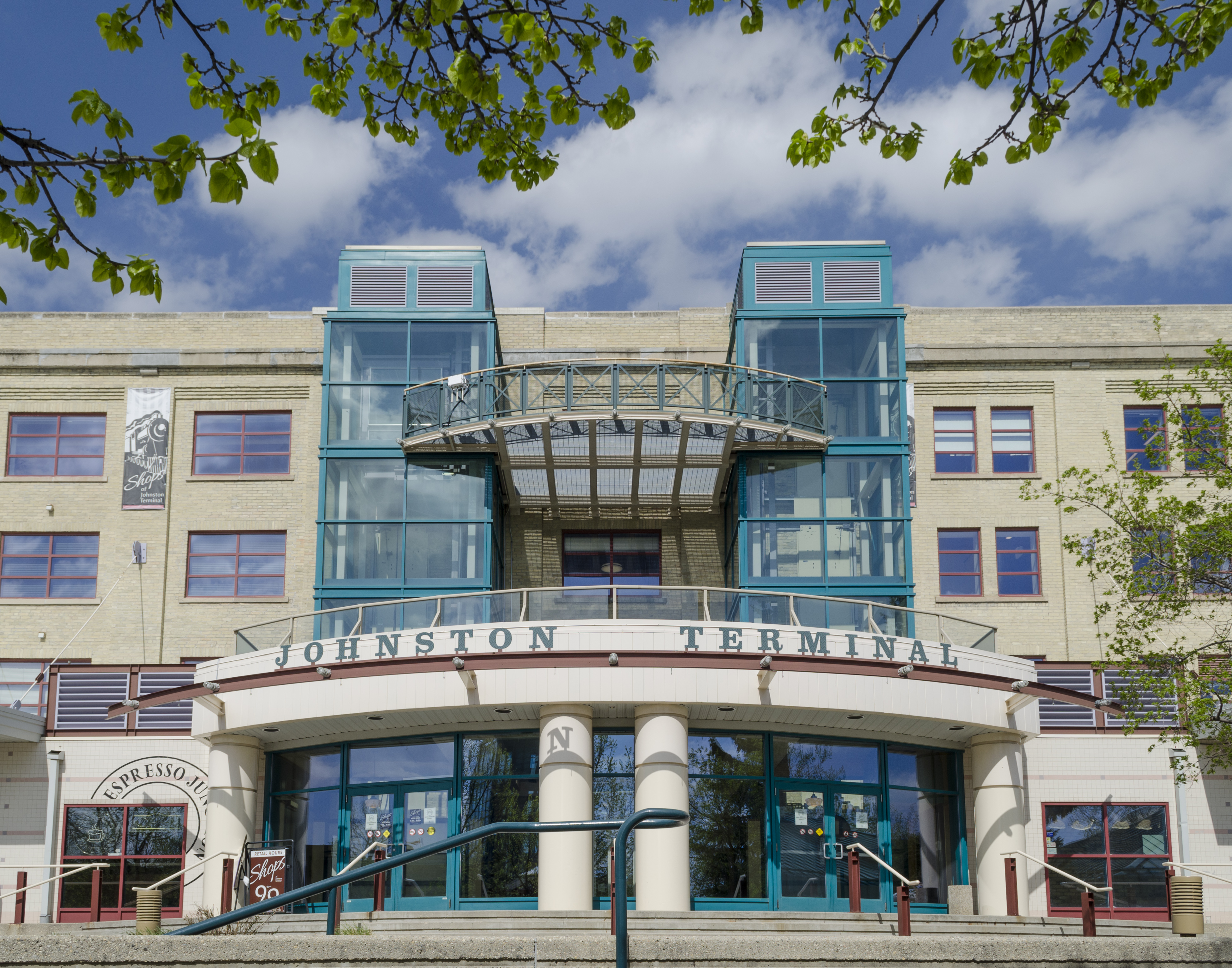 The main entrance to Johnston Terminal at the Forks, in Winnipeg, Manitoba